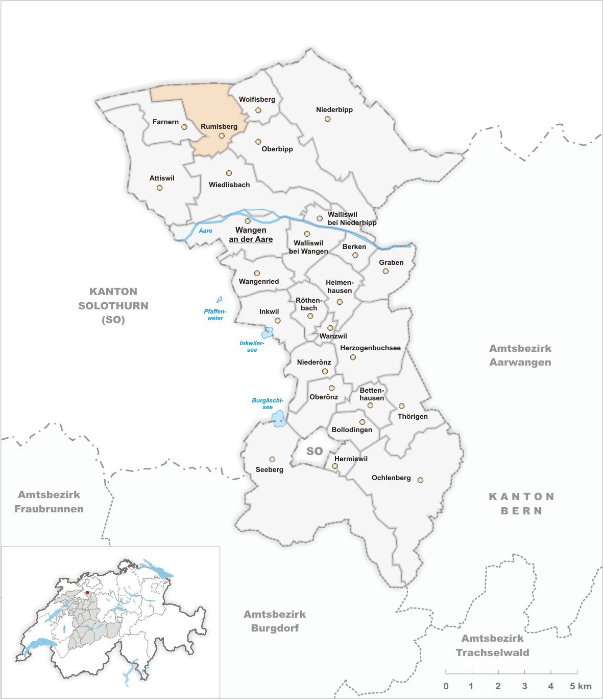 Municipality Rumisberg